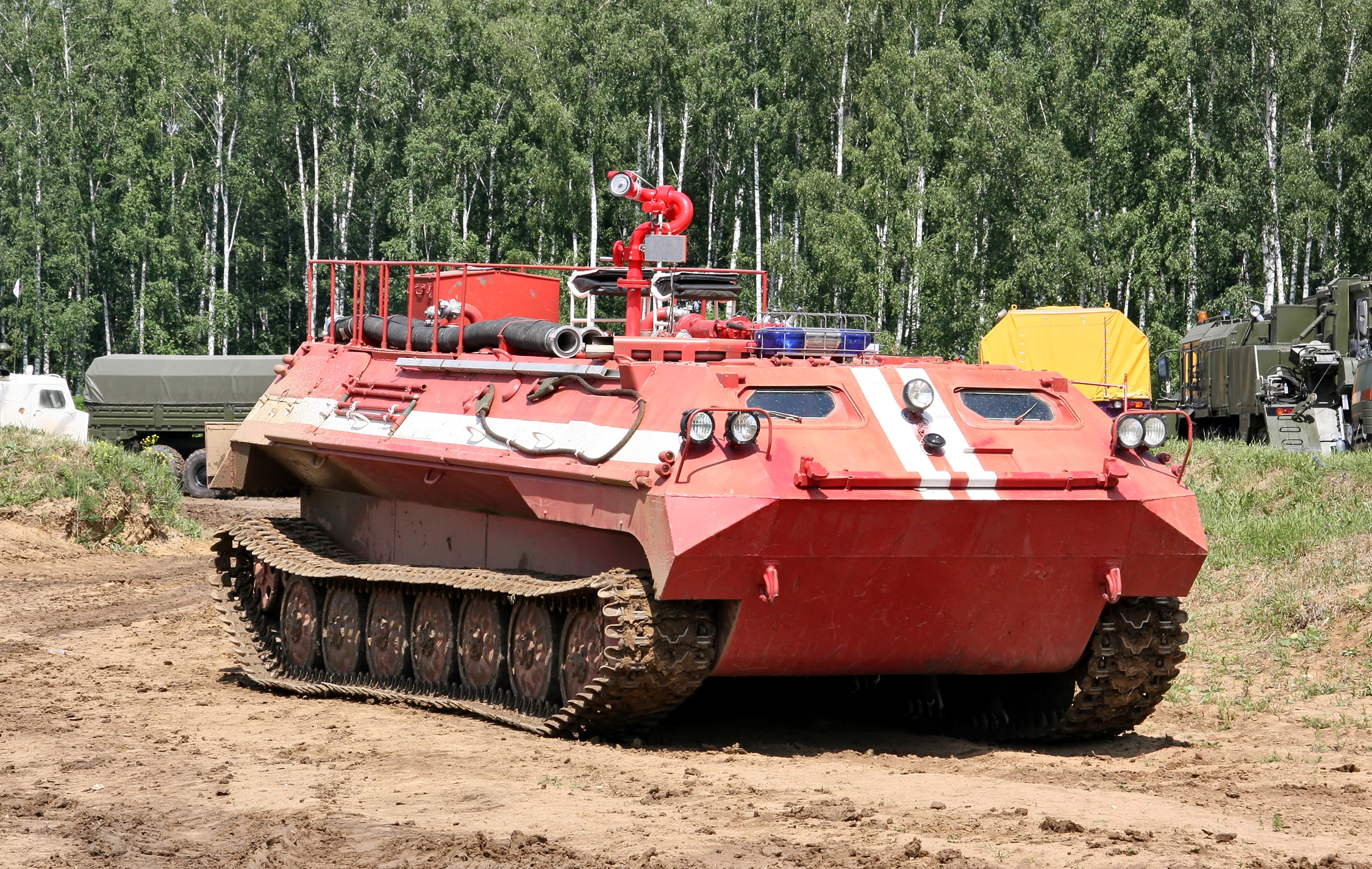 The firefighting tank MT-LBu-GPM-10 during a demonstration at Bronnitsy test rage.